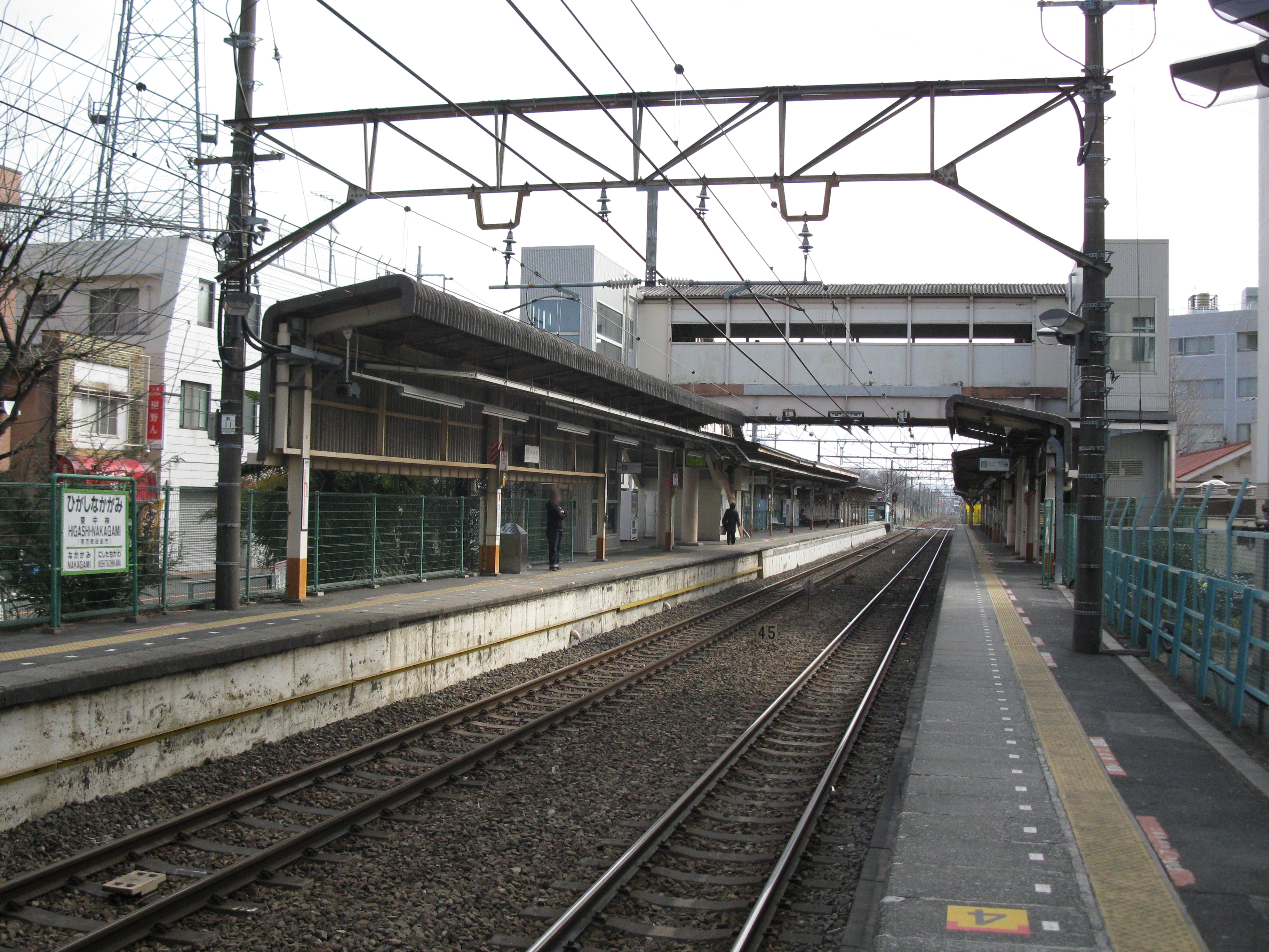 Higashi-Nakagami Station platform (East Japan Railway Ōme Line)